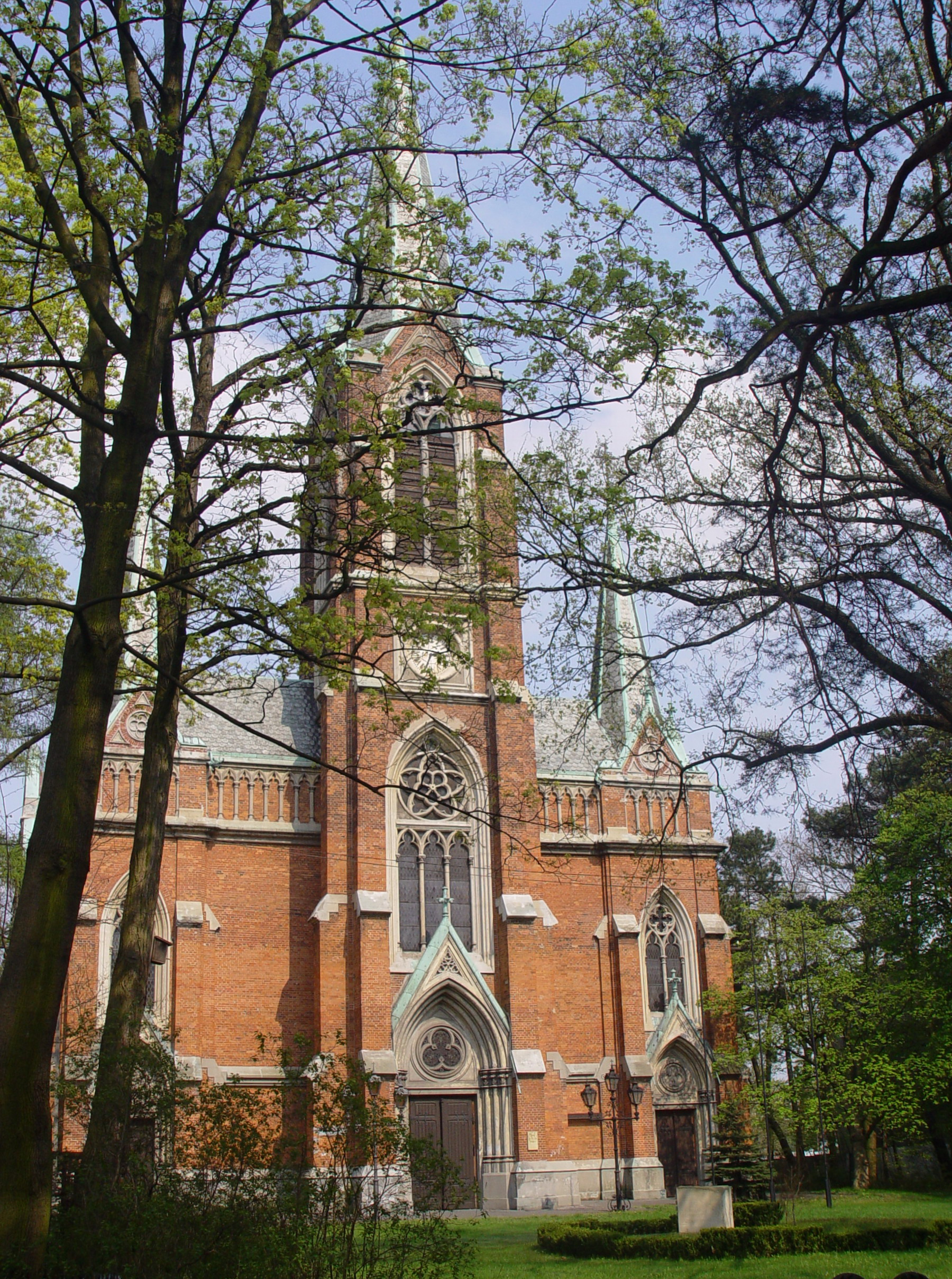 Church Evangelical Church of the Augsburg Confession in Poland in Tomaszów Mazowiecki